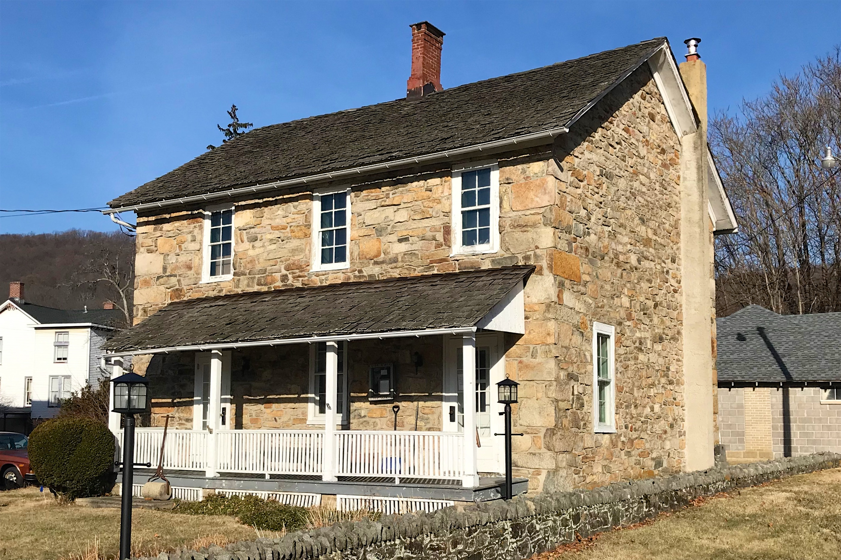 The former German Valley School, built 1830, in Long Valley, New Jersey. Key contributing structure #59 in the German Valley Historic District. Now the home of the Washington Township Historical Society Museum.